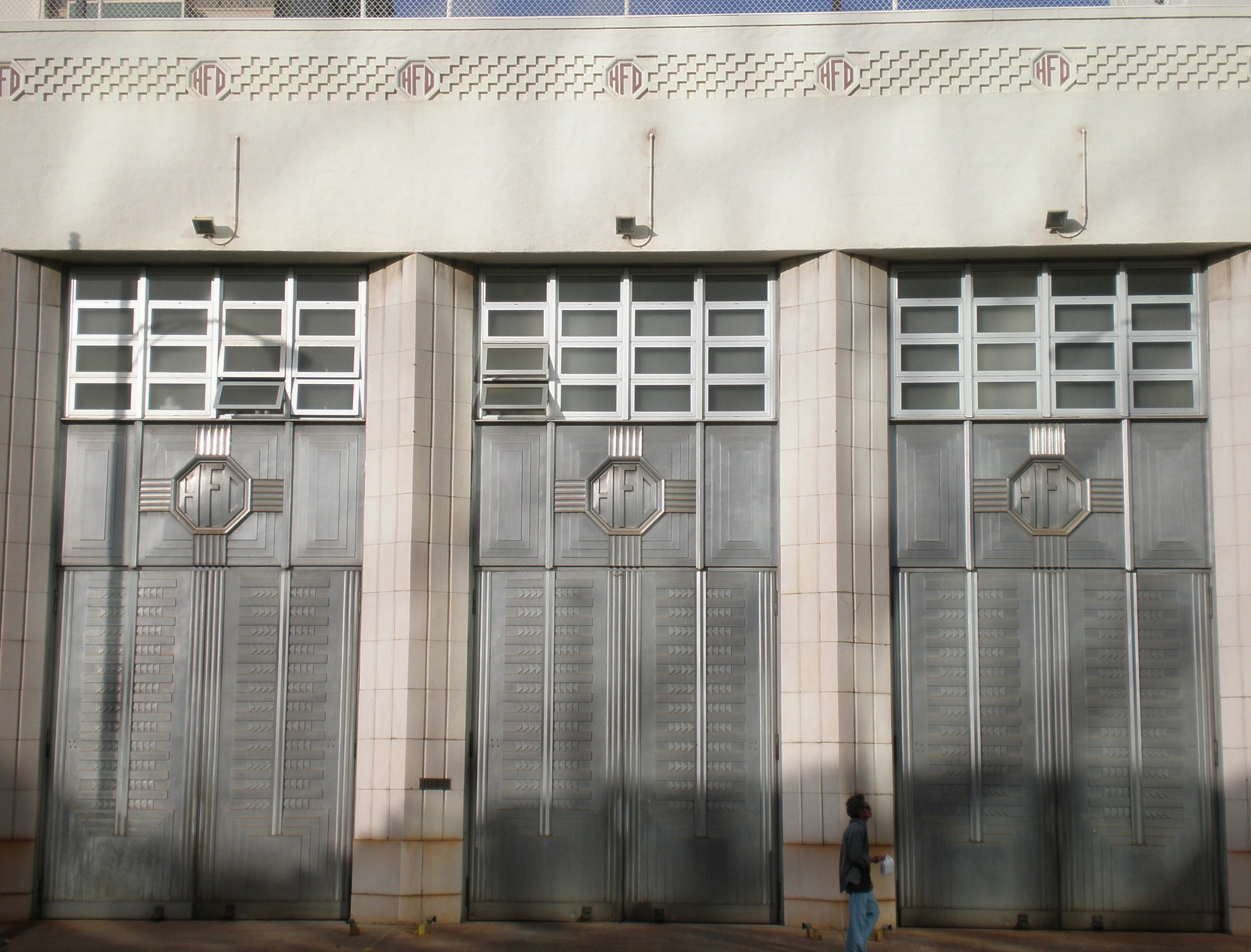 Doors of Honolulu Central Fire Station, designed by C.W. Dickey, on National Register of Historic Places